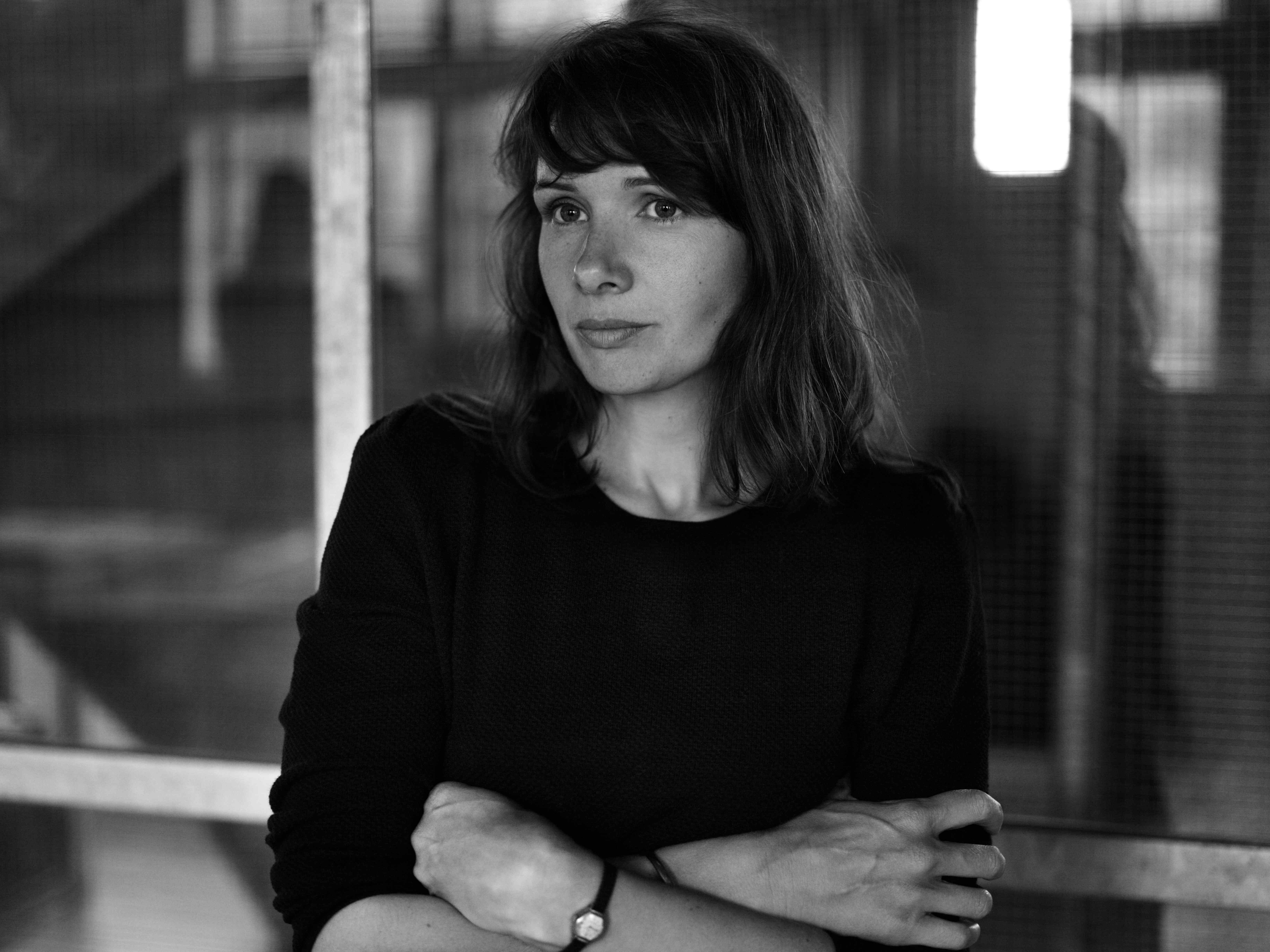 Sarah Domogala 2013